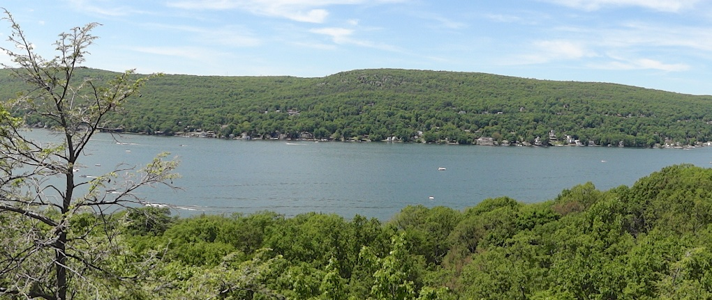 Panorama of Bearfort Mountain and Bellvale Mountain across Greenwood Lake.